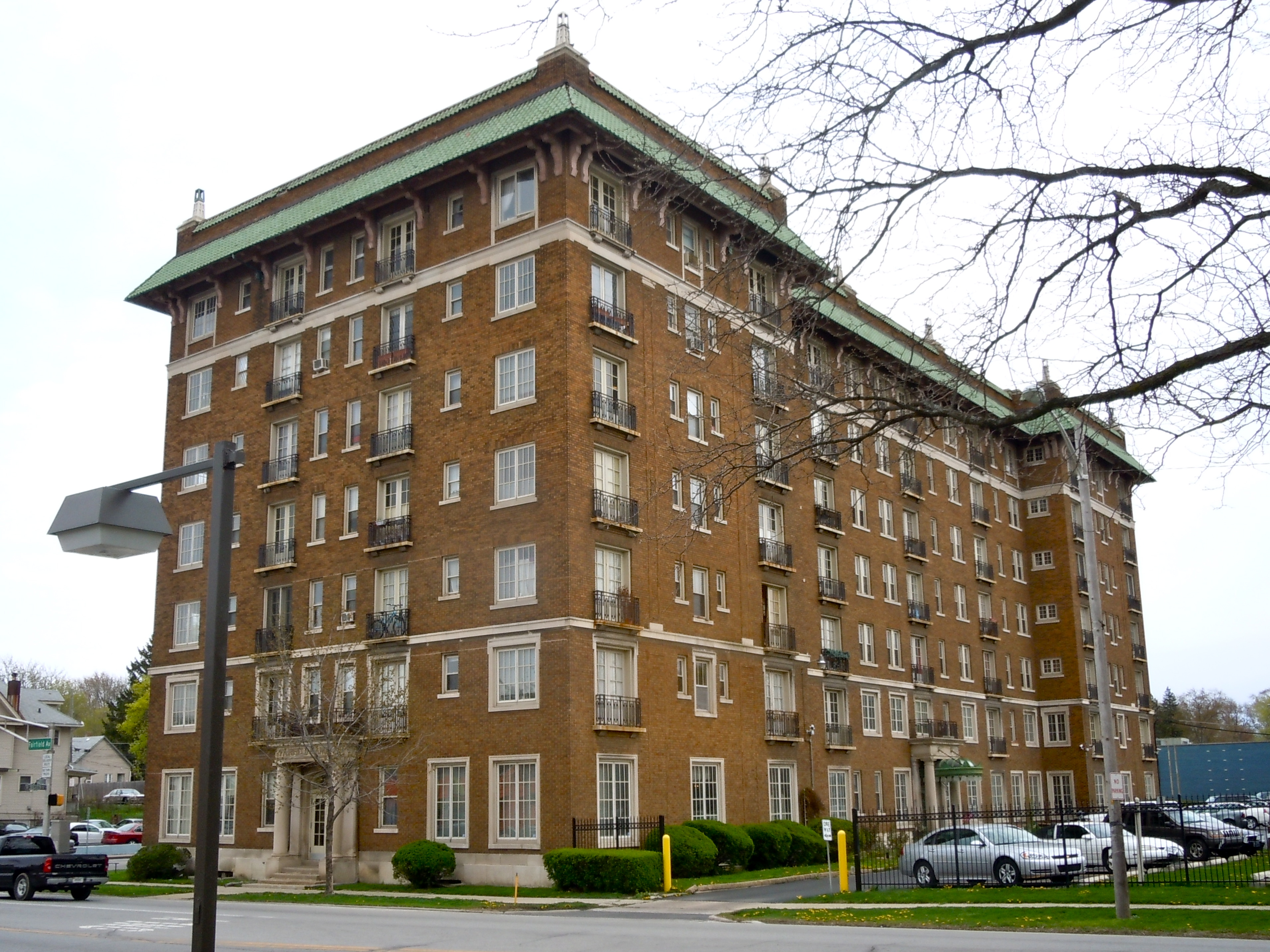 Fairfield Manor on the NRHP since June 16, 1983 . At 2301 Fairfield Ave., Fort Wayne, Allen County, Indiana